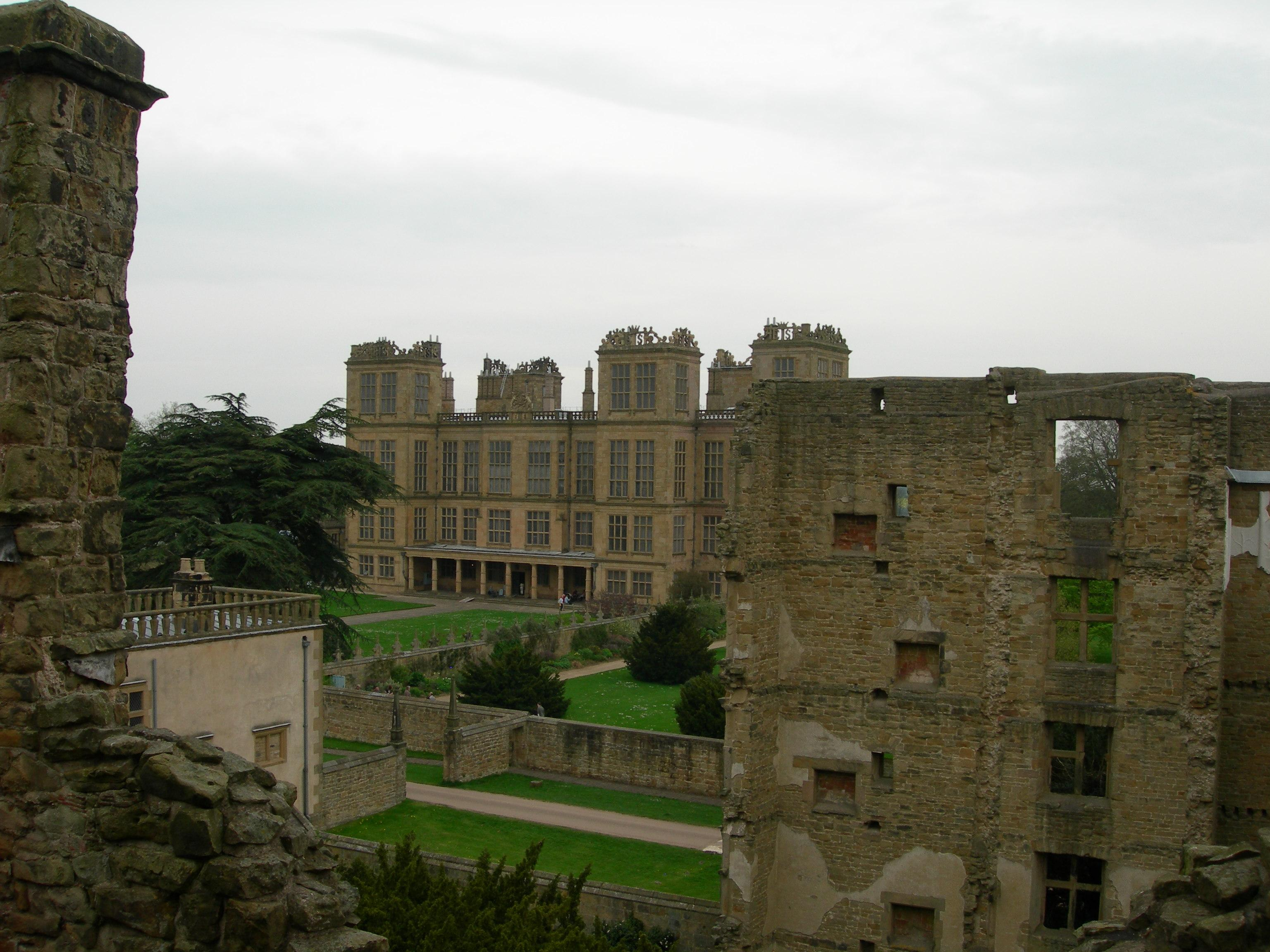 Photo taken from Hardwick Old Hall